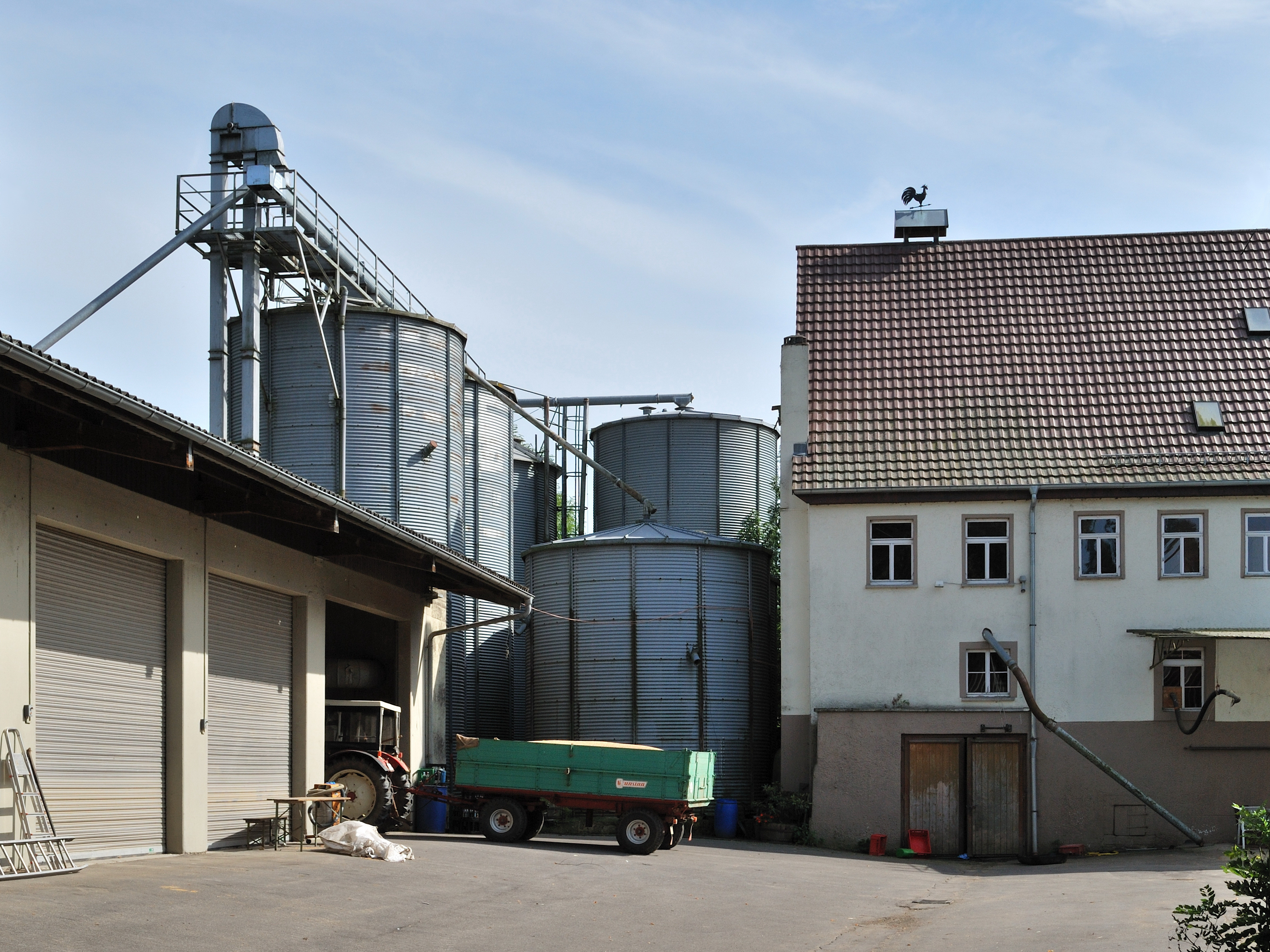 Talmühle on the river Glems in Schöckingen in Baden-Württemberg, Germany.